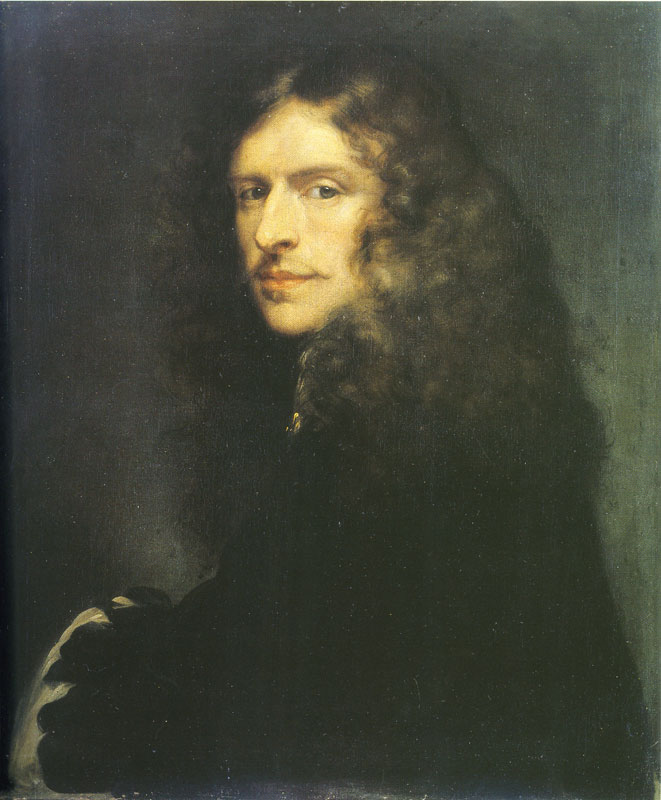 Selfportrait of Jürgen Ovens (1623-1678)